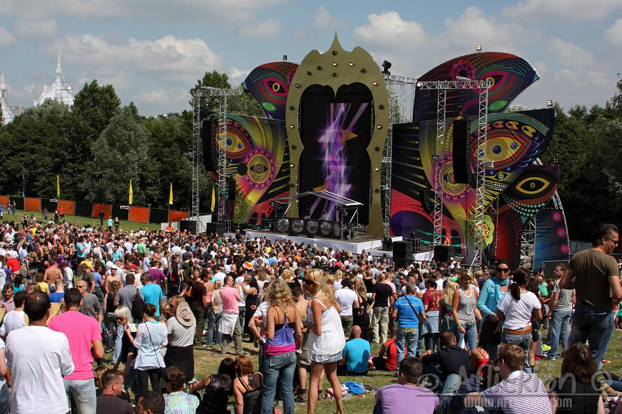 Dance Valley_012